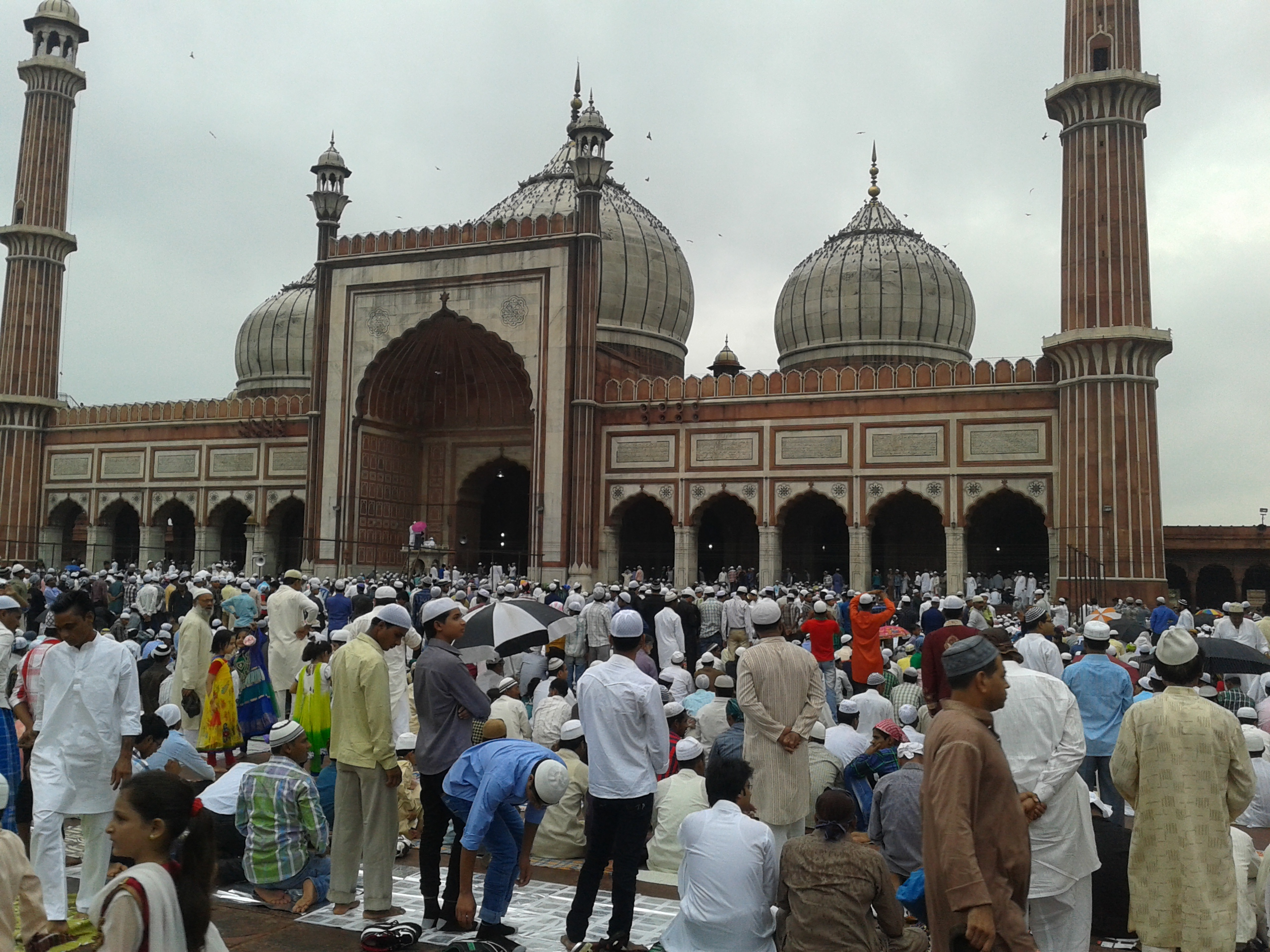 Delhi Jama Masjid, Eid ul Fitr pray 2013